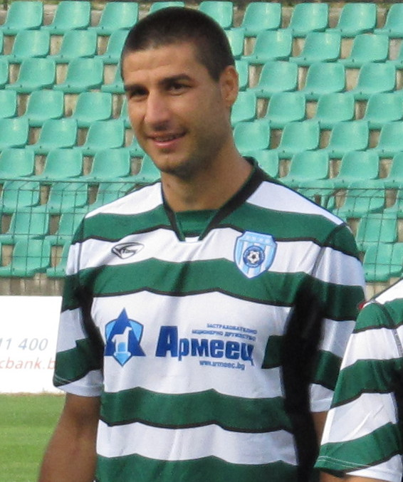 Bulgarian footballer Kiril Kotev